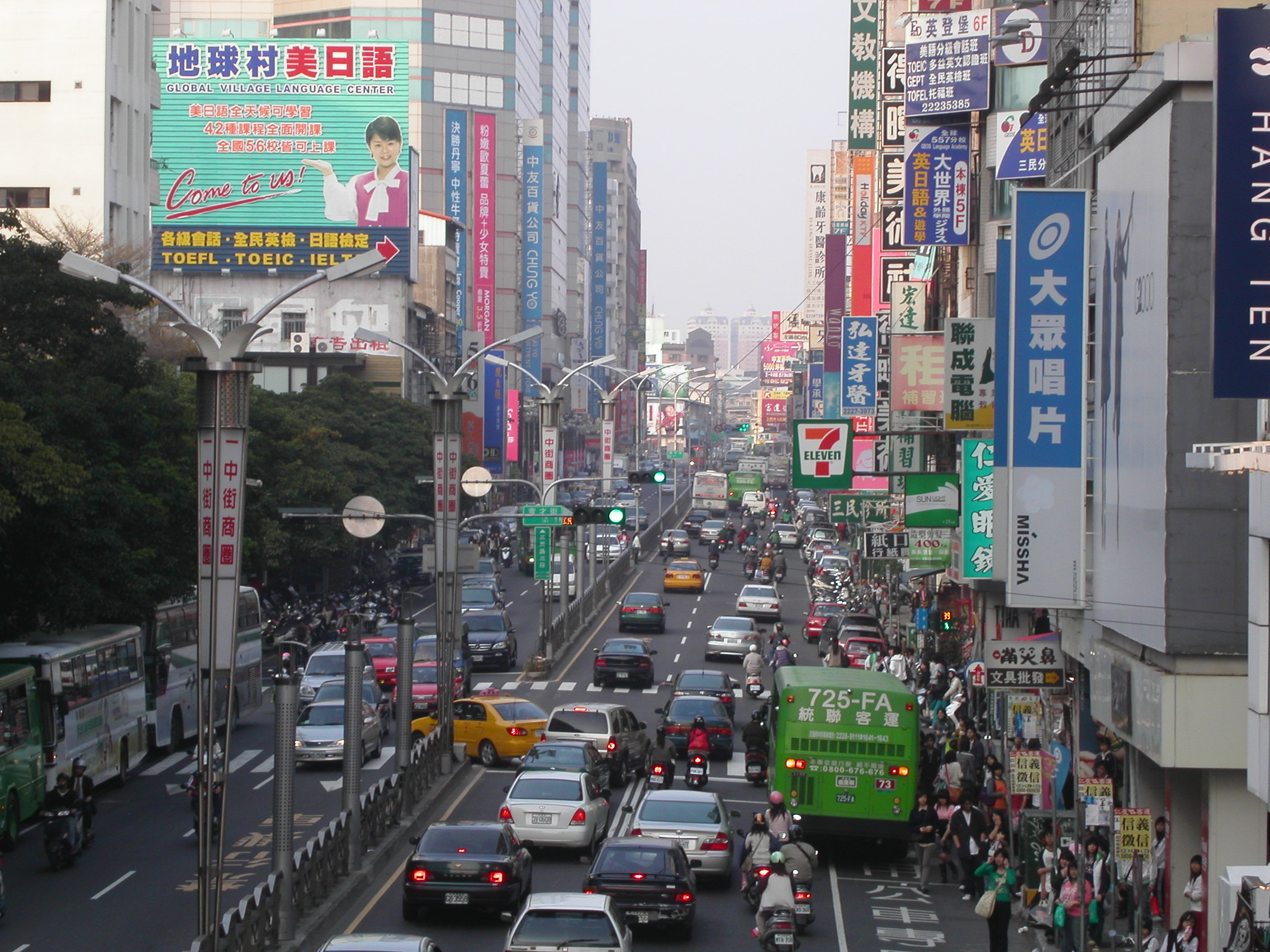 Sanmin Rd. Sec. 3,Taichung City,Taiwan